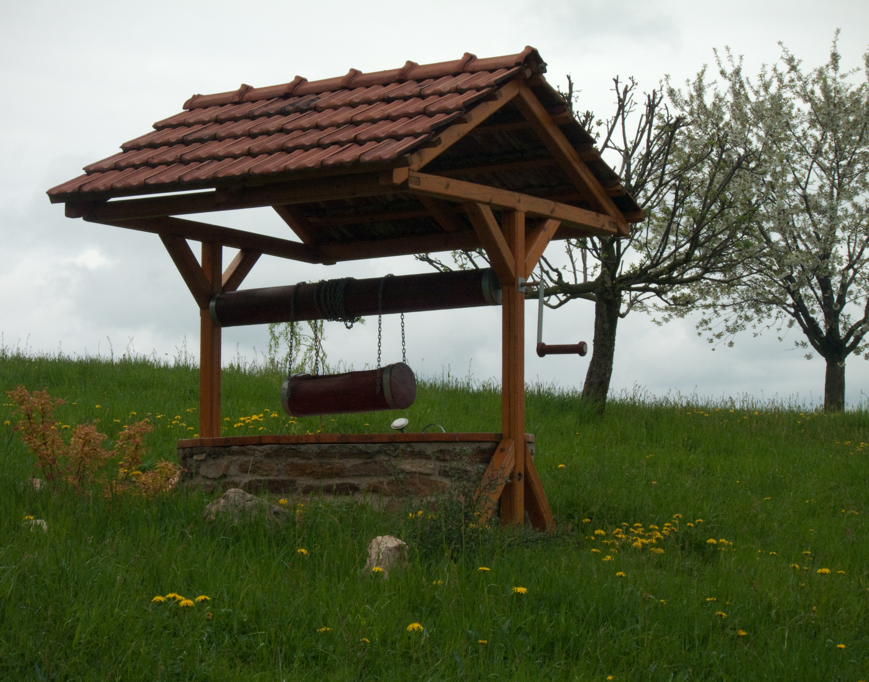 Windlass in the village of Záhoříčko, Tábor district, Czech Republic